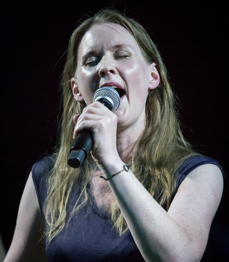 Anita Kaasbøll at a concert with Trondheim Voices at the concert venue Sølvsalen. The concert took place during Kongsberg Jazzfestival on 6 July, 2017, in Kongsberg, Norway. Lineup: Sissel Vera Pettersen (vocal) Tone Åse (vocal) Heidi Skjerve (vocal) Silje Ræstad Karlsen (vocal) Anita Kaasbøll (vocal) Torunn Sævik (vocal) Mia Marlen Berg (vocal) Live Maria Roggen (vocal)